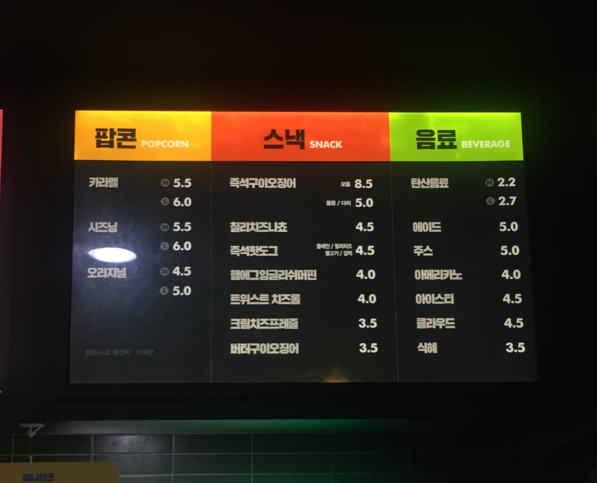 Snack Menu in Lotte Cinema